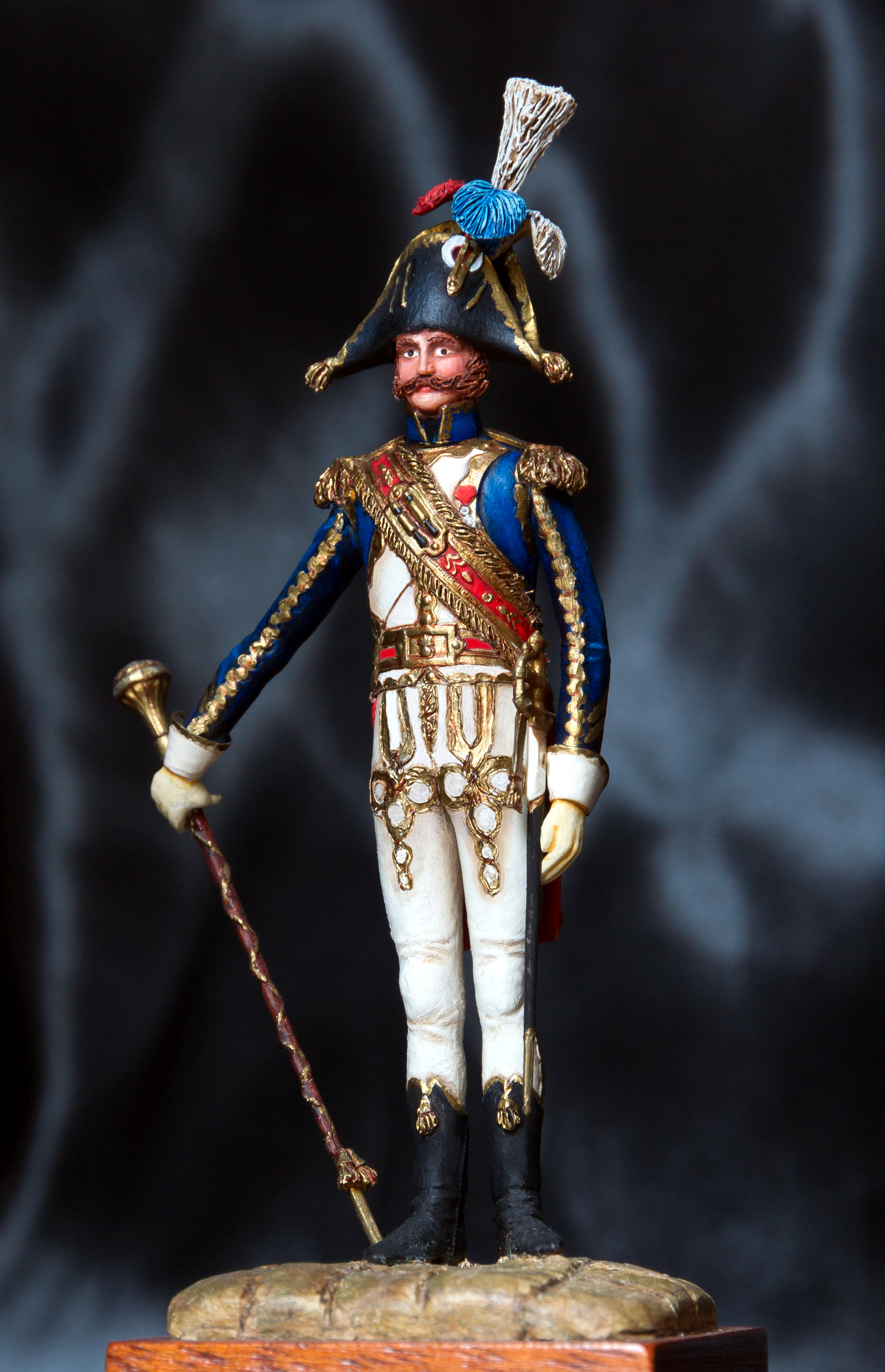 Original plastic figurine, 54mm, representing Jean Nicolas SENOT (1761-1837), drum major of the Ist Regiment of Foot Grenadiers of the Imperial Guard.